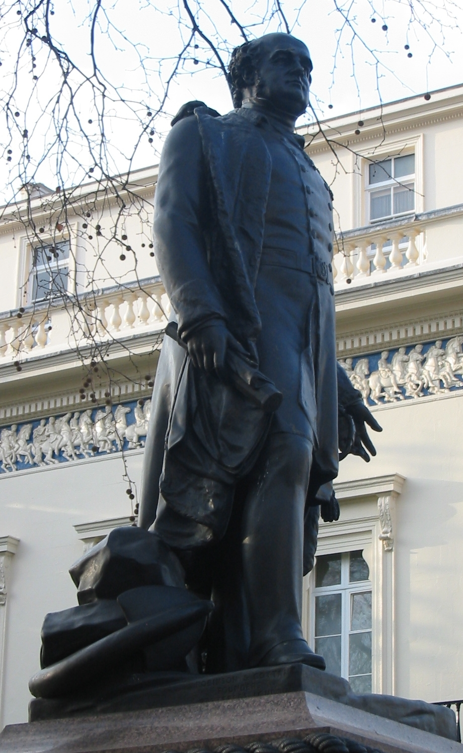 John Franklin statue in London